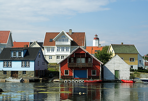 Houses at a bay near Ydstebøhavn, municipality of Kvitsøy in the county of Rogaland, Norway